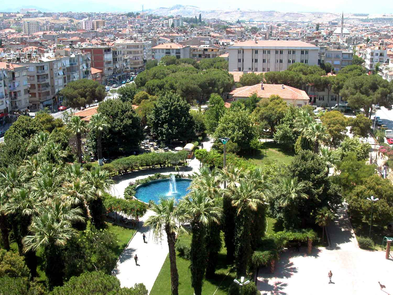 Central park in Turgutlu, Manisa, Turkey (hersey turgutlu icin)